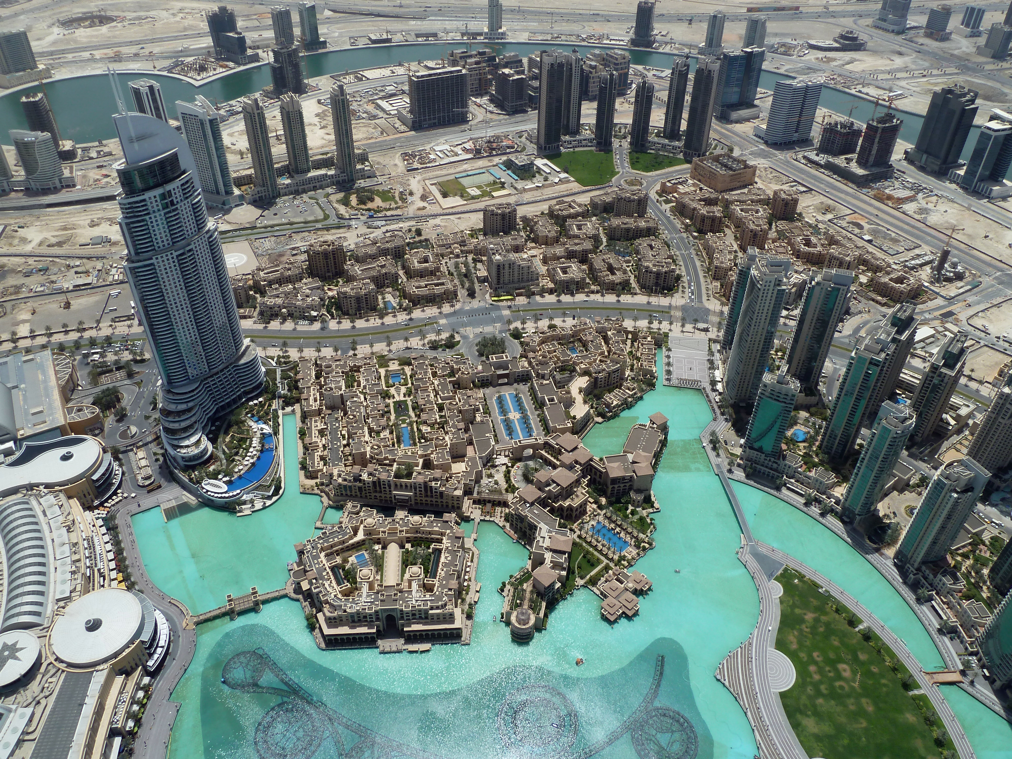 View from Burj Khalifa